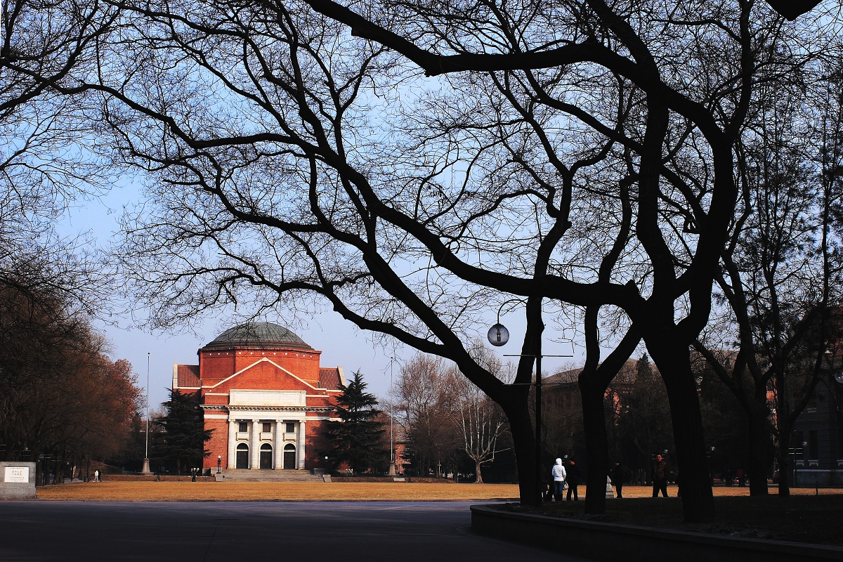 The Tsinghua University campus in Beijing, China.